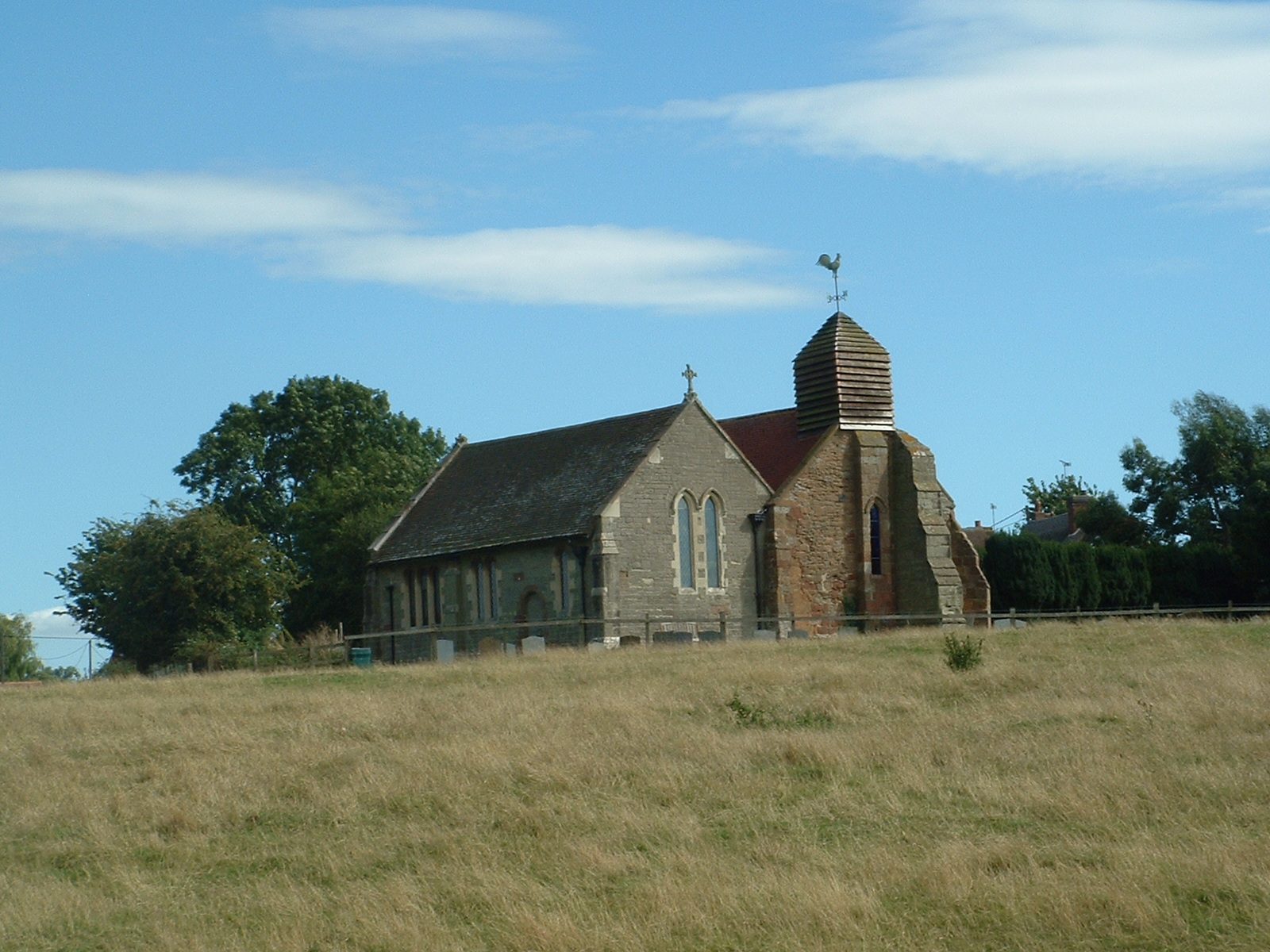 St Margaret's parish church, Hunningham, Warwickshire, seen from the northwest